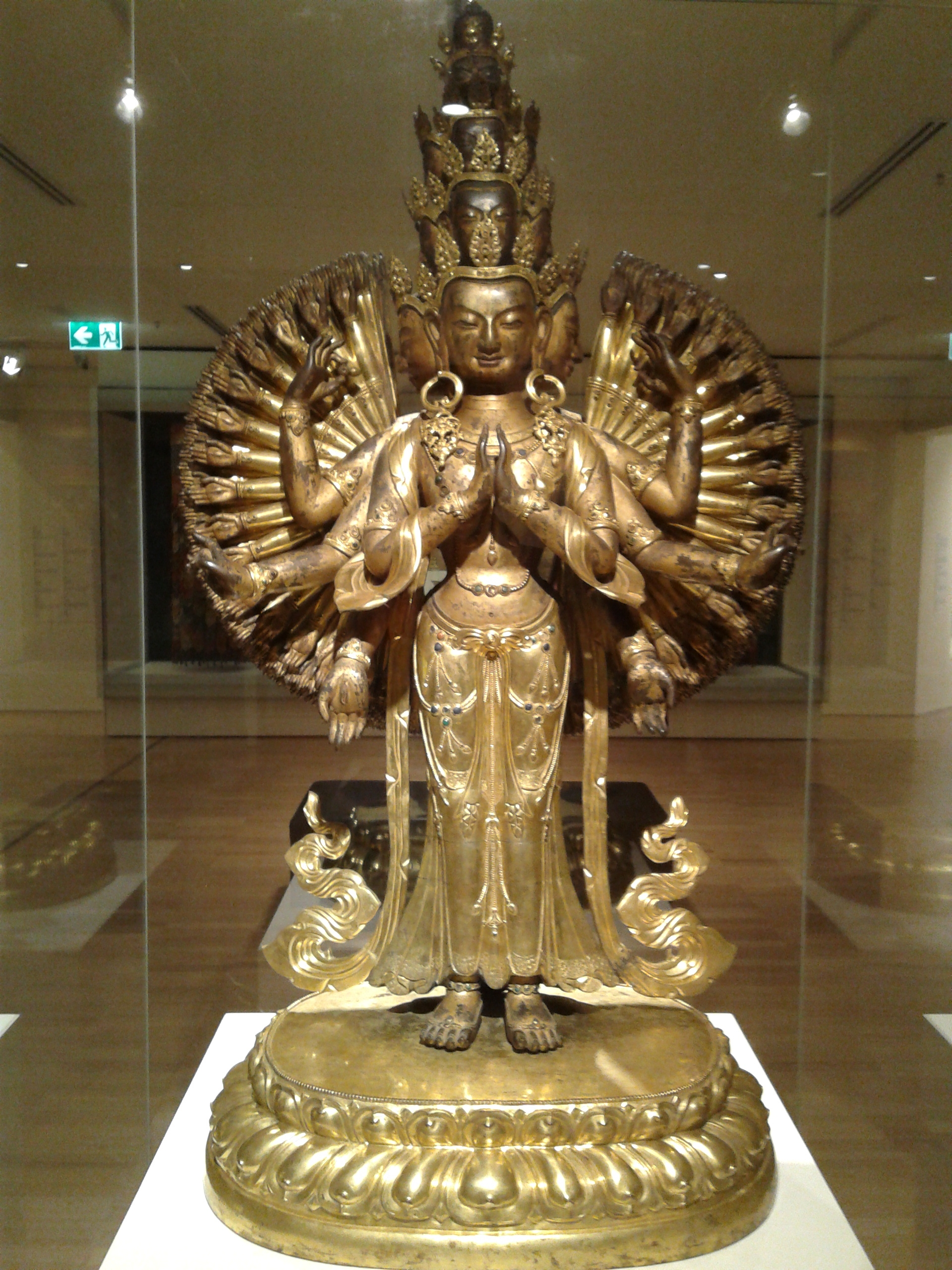 Figure of the Avalokiteshvara, a thousand-armed Bodhisattva, for the Tibetan market.